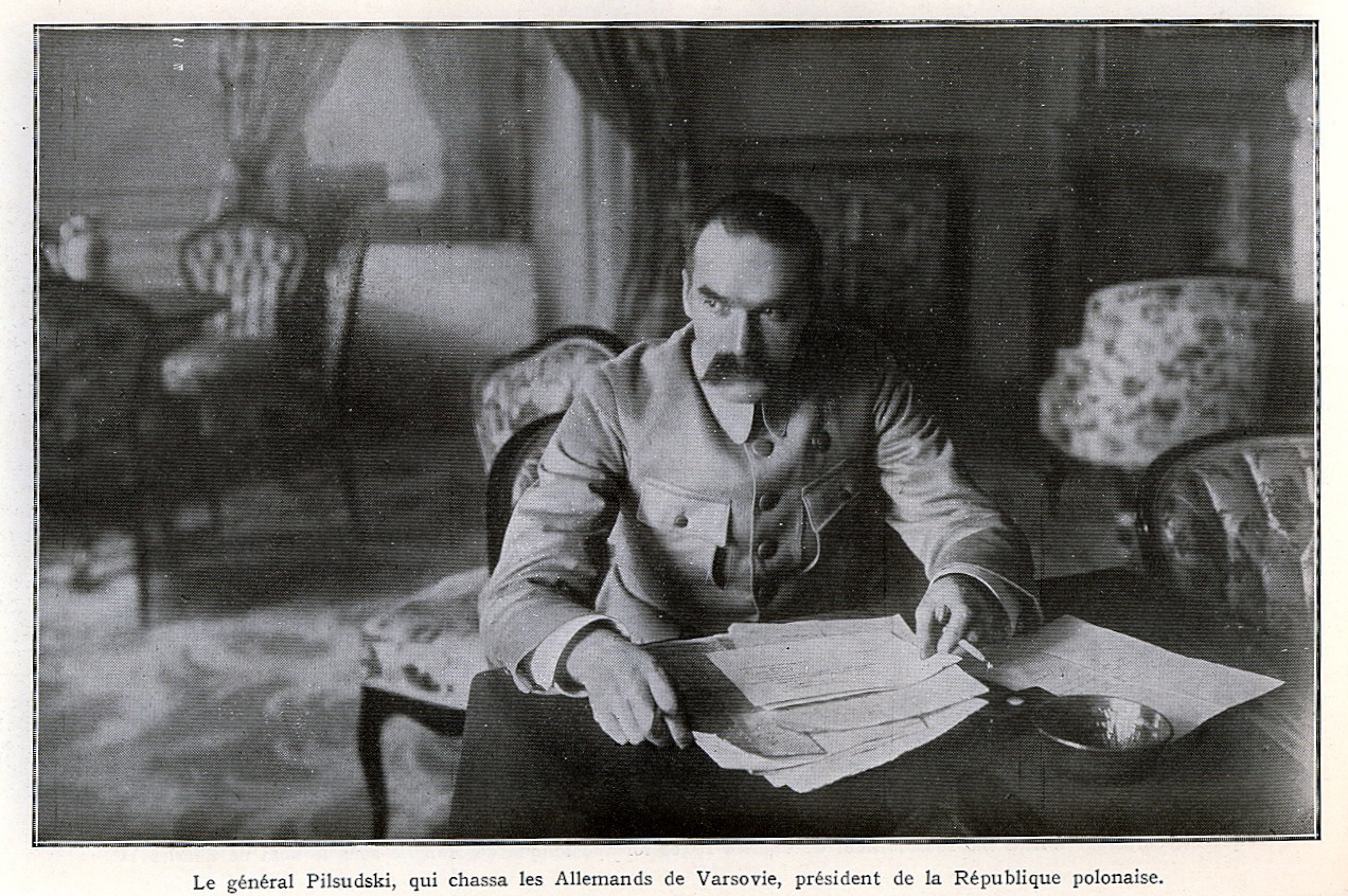 Józef Piłsudski, when he became the first Chief of State (Naczelnik Państwa) of the Republic of Poland, 1919